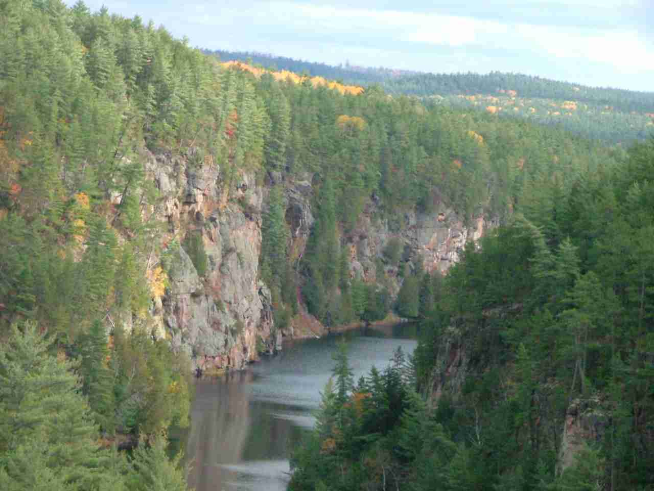 View of the Barron River from the top of the Barron Canyon, looking downstream